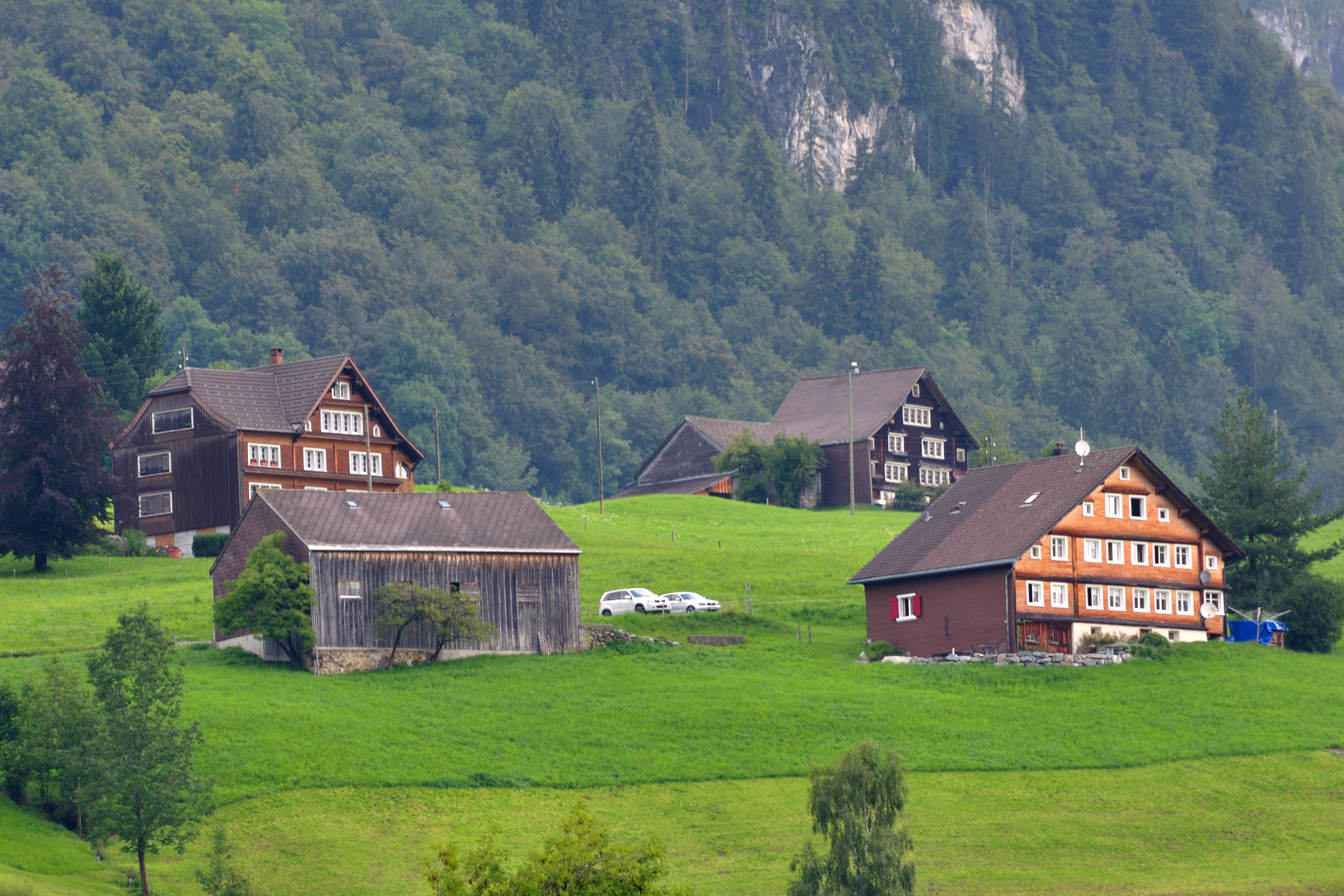 Switzerland, Canton of St. Gallen, views from the parking of Iltios ropeway